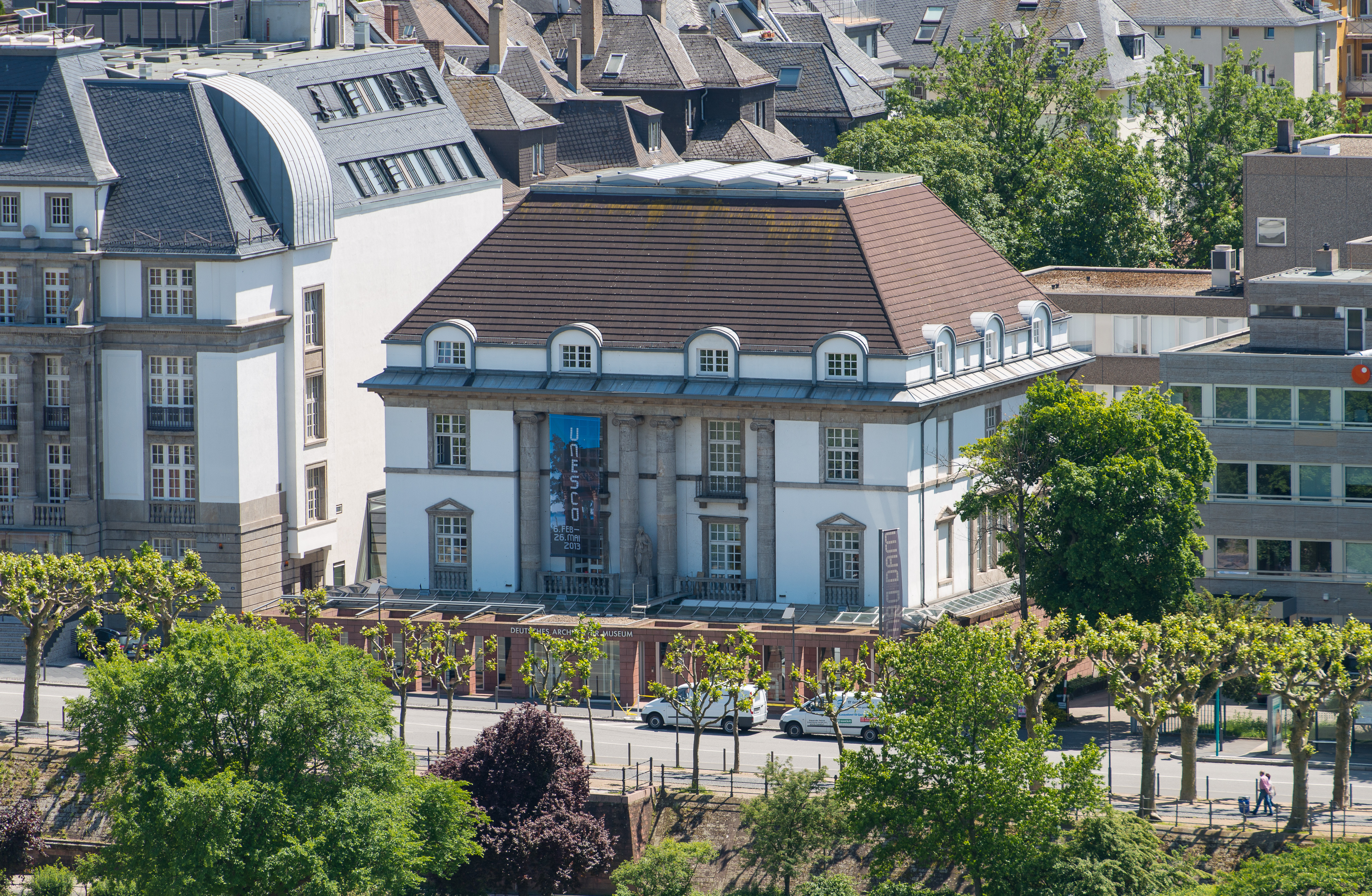 Frankfurt am Main, German Architecture Museum (as seen from elevated North-West).